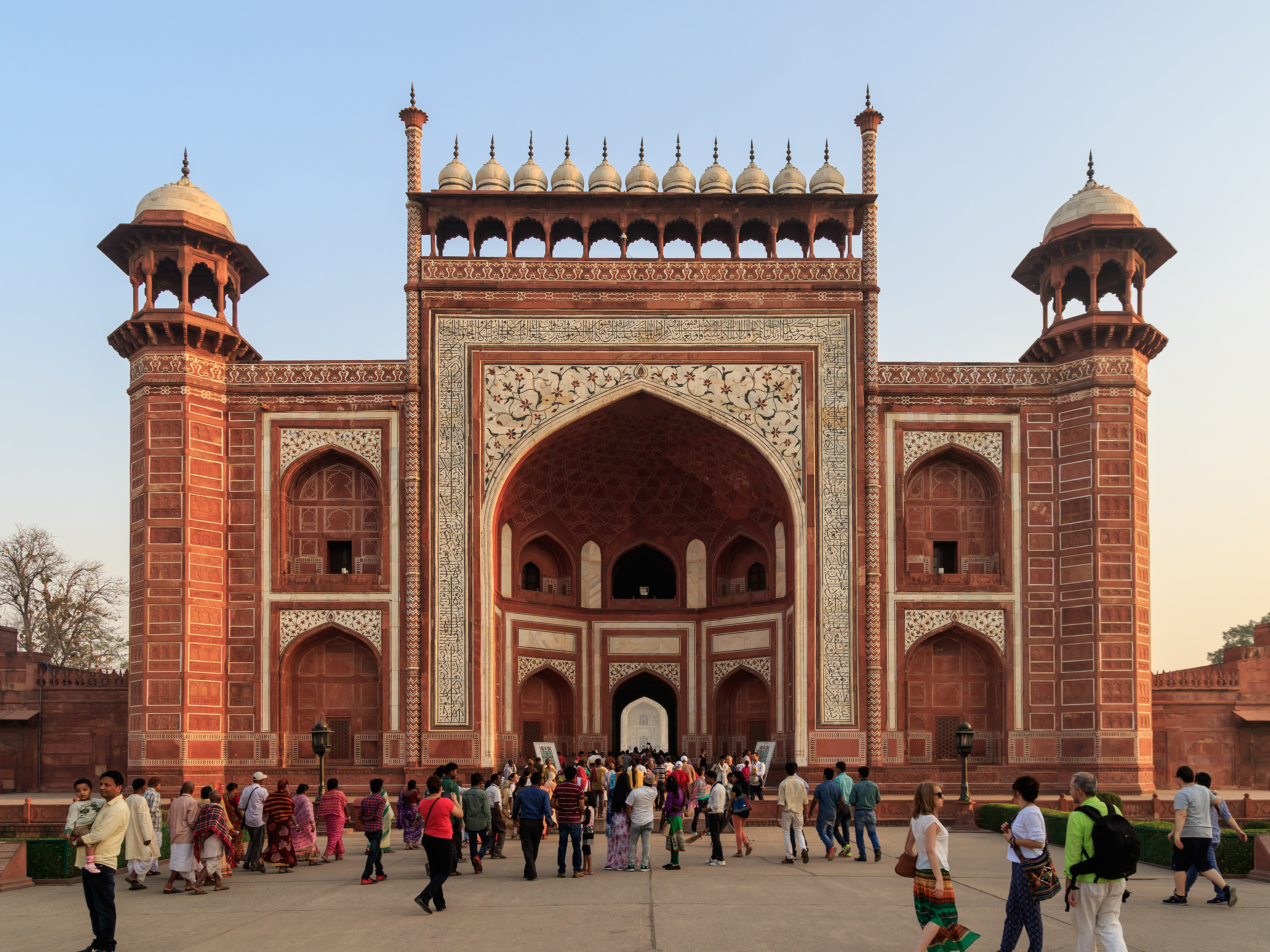 Early morning at the Taj Mahal complex in Agra, India.